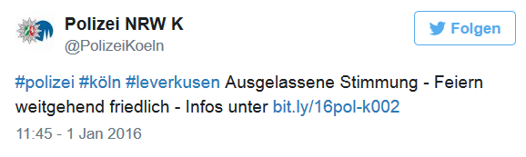 tweet police cologne: "~high mood - festivities largely peaceful - Info at bit.ly/16pol-k002 " (rough translated, check this) (Screenshot) of tweet